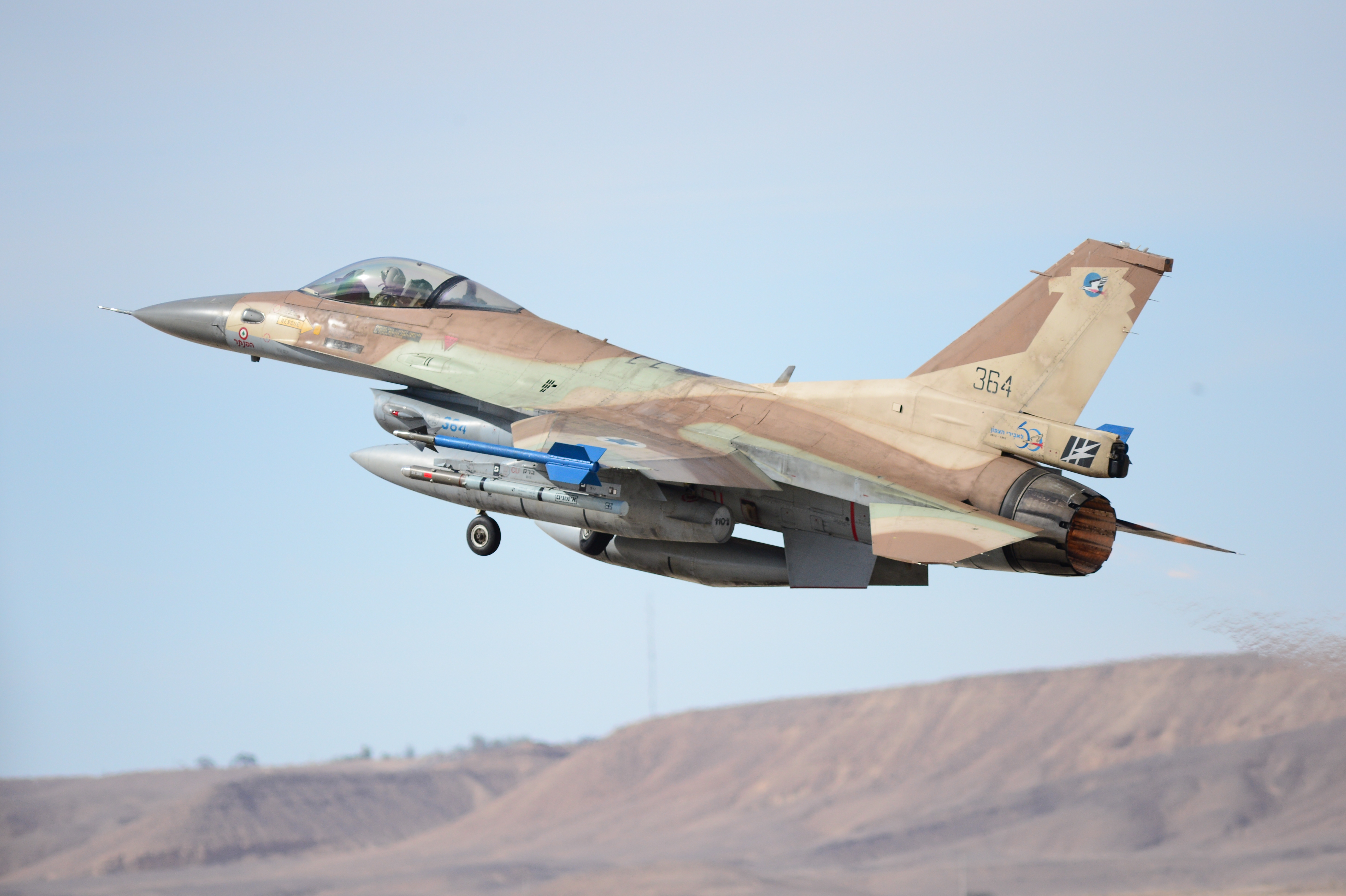 An Israeli Air Force General Dynamics F-16C Barak (364, USAF 87-1672) of the 110th Squadron departs on a mission during the "Blue Flag" exercise on Ovda Air Force Base, Israel, on 27 November 2013. The exercise was designed to promote improved operational capability, combat effectiveness, understanding and cooperation between the U.S., Israel, Greece, and Italy. The participating units engaged multiple heavy air defense assets, ground base targets and simulated opposition forces to meet combined operations requirements. Note the "kill" marking painted on the front of the aircraft.